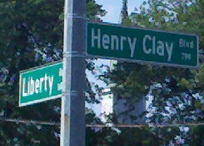 Key interior intersection for Liberty heights